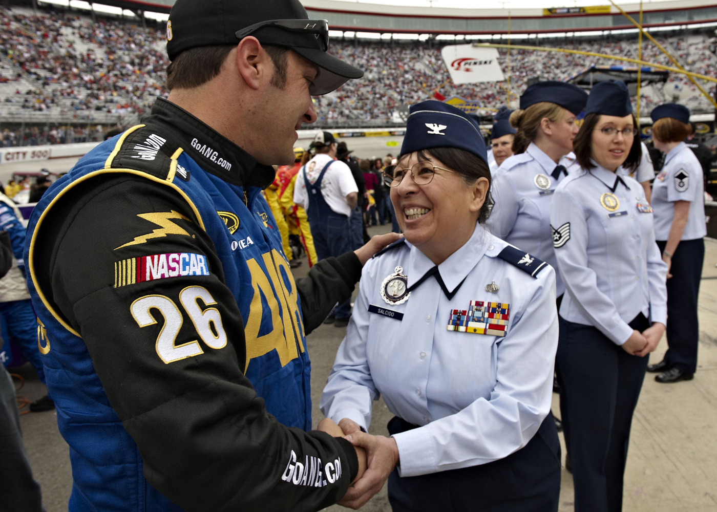 NASCAR driver David Stremme meets Air Force Col. Mary Salcido, director of Air Guard Recruiting and Retention, at Bristol, Tenn., during a Sprint Cup Series Race March 21. The Air National Guard's recruiters continue to reach lifetime achievements in accessions, with precision recruiting in technical, medical and officer careers, using new marketing strategies and technology. (U.S. Air Force photo by Senior Master Sgt. Rob Trubia) (Released)